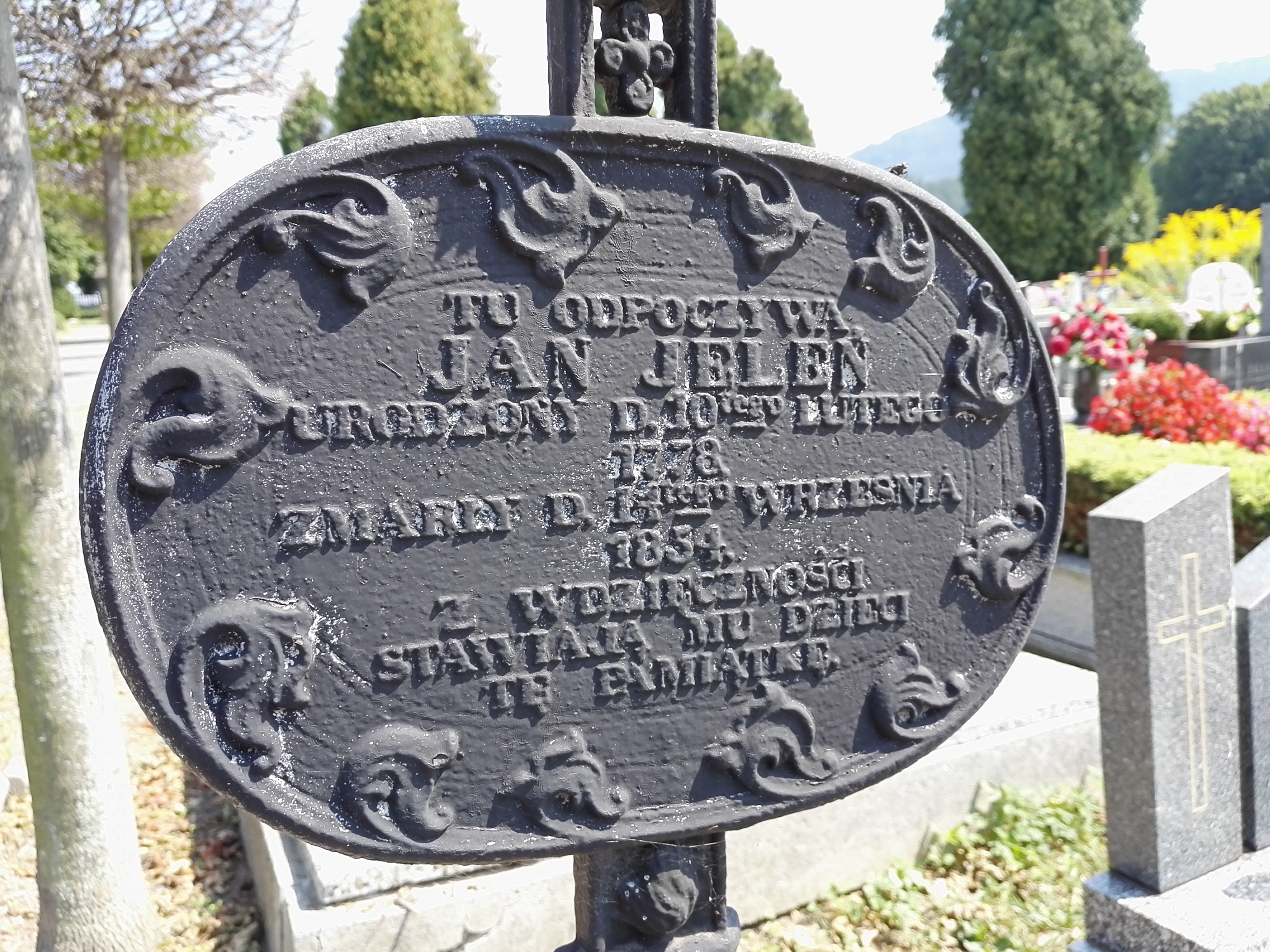 Cisownica. Lutheran cemetery. Grave to Jan Jeleń (1778-1854). Detail.